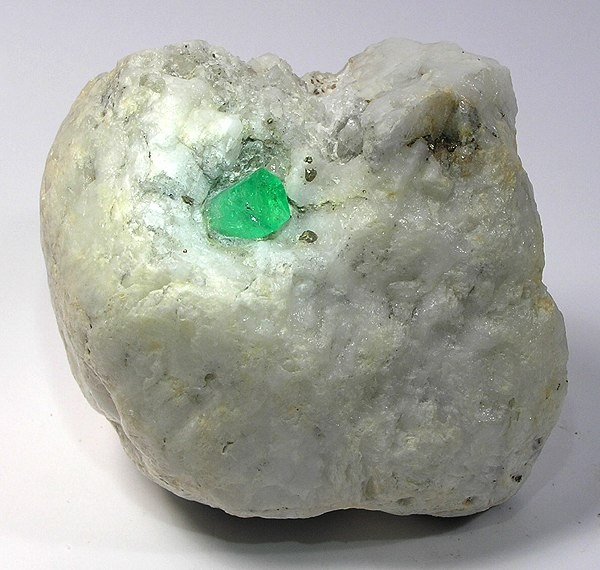 Beryl (Var.: Emerald) Locality: Coscuez Mine (Cosquez Mine), Muzo, Vasquez-Yacopí Mining District, Boyacá Department, Colombia (Locality at ) Size: 9.9 x 7.9 x 7.2 cm. This is a superb GEM EMERALD still embedded in matrix, in the pocket in which it formed. The emerald has fine bright grassy green color and is highly gemmy and transparent! It measures one cm both across the termination and in height. You can see some little pyrites around it on the calcite matrix.